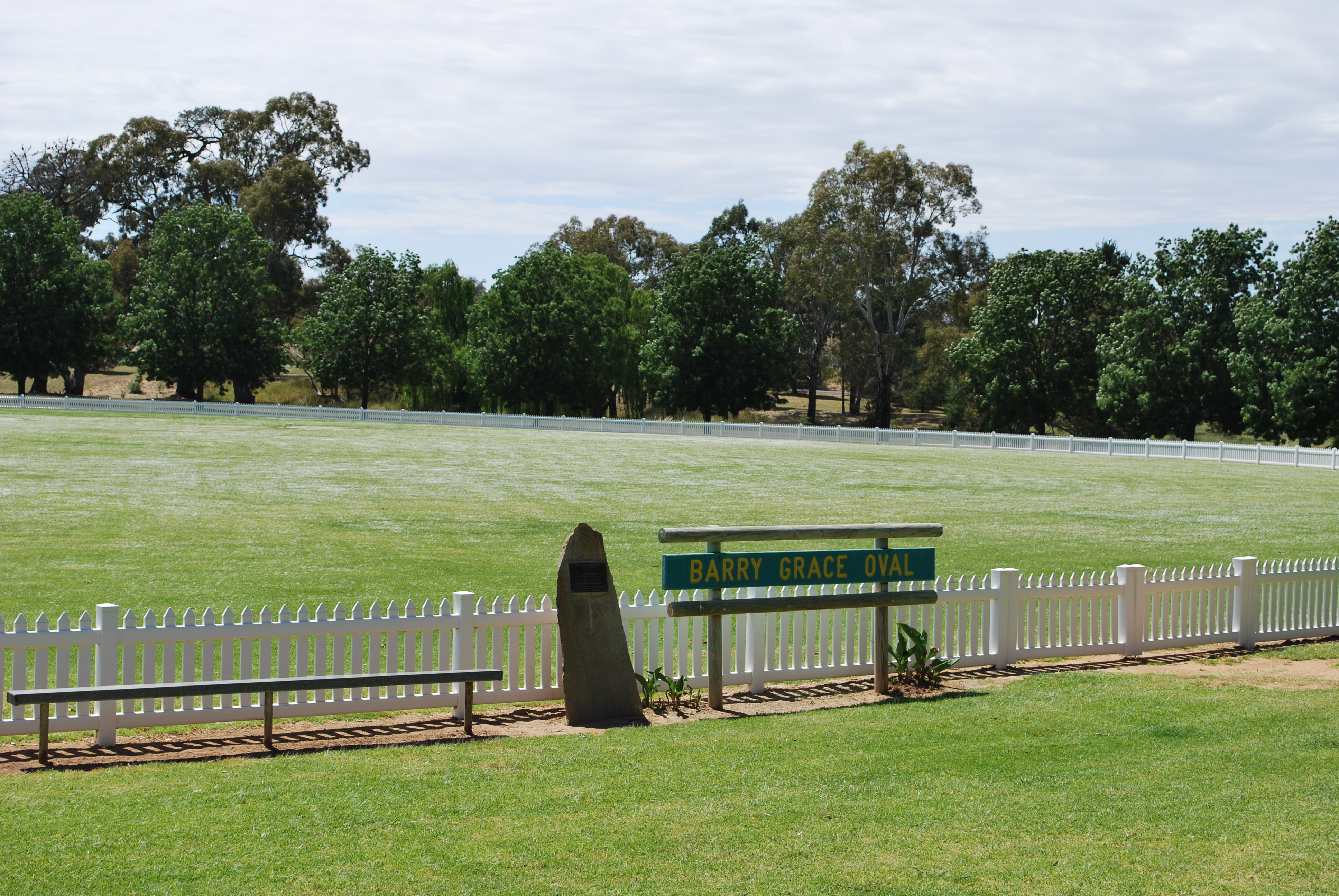 The Barry Grace oval, a cricket ground at Wallendbeen, New South Wales